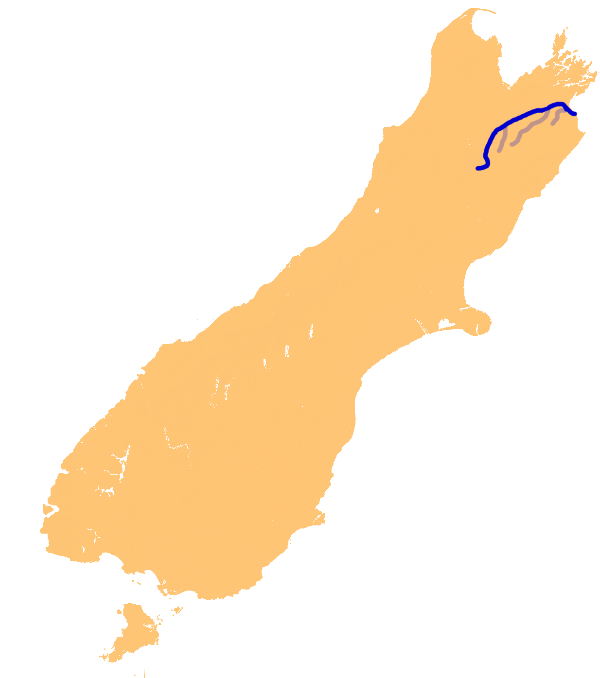 Location map of the Wairau River, New Zealand